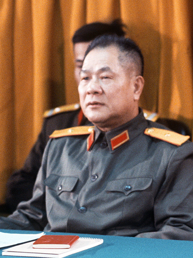 Major General Lê Quang Hòa of the North Vietnamese delegates attending the Four Joint Military conference. The conference held at Tan Son Nhut Airbase will finalize details on the release of prisoners of wars held by the four parties